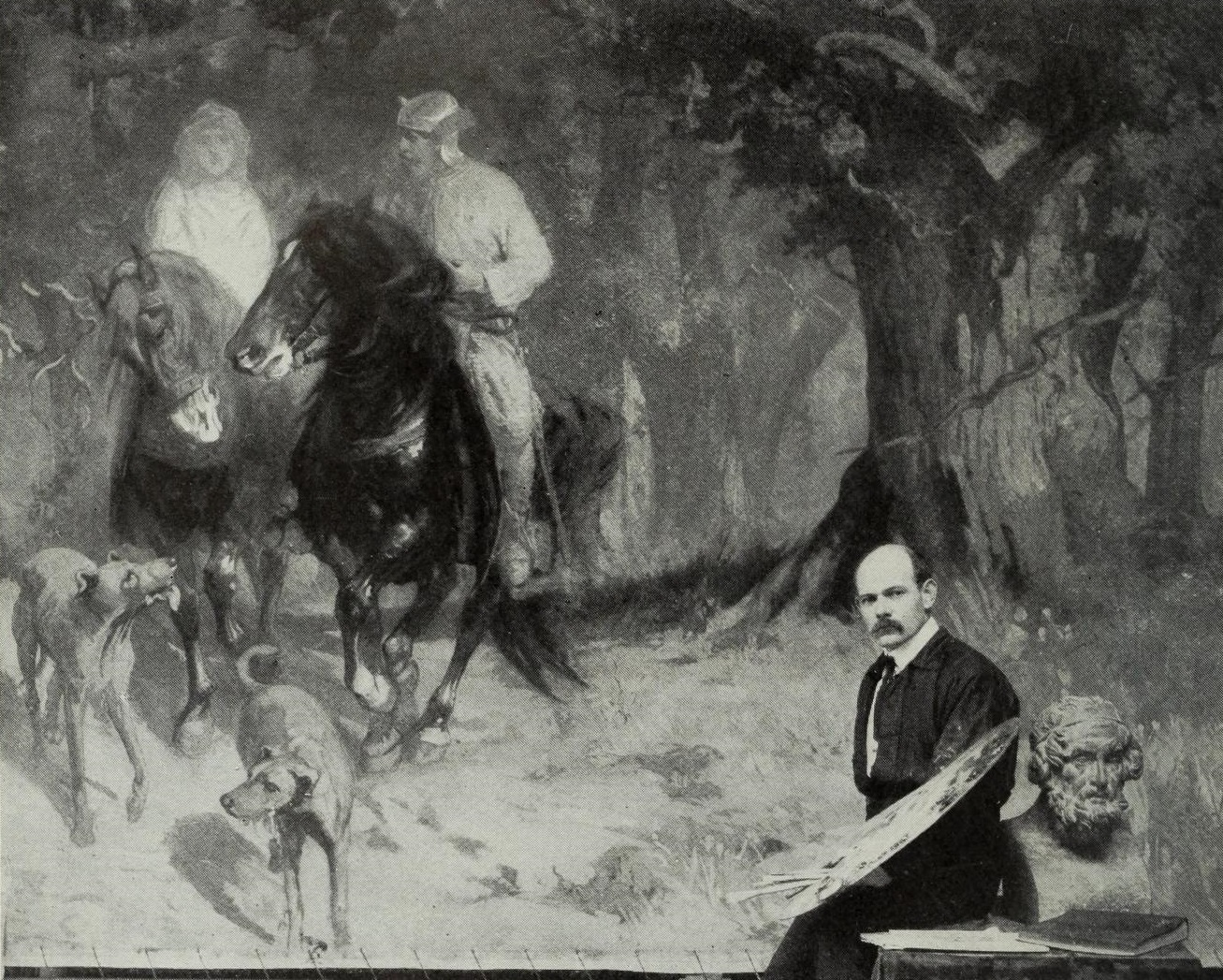 "Mr. Borglum in his Studio."